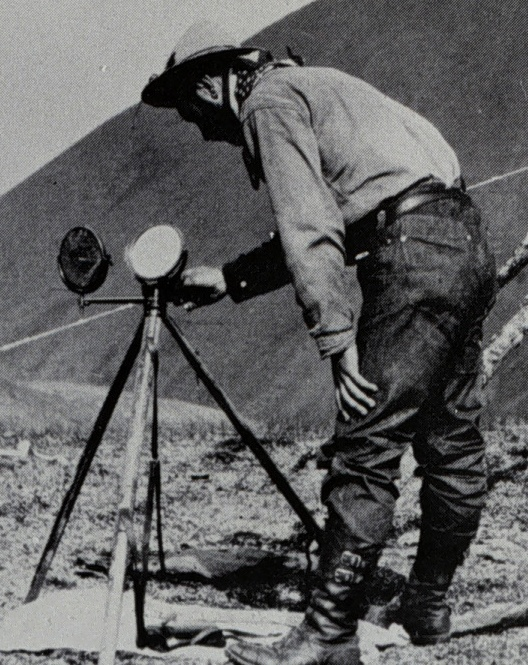 heliograph - Signaling with heliograph near Monument 92. Alaska - Canada border. International Boundary Commission